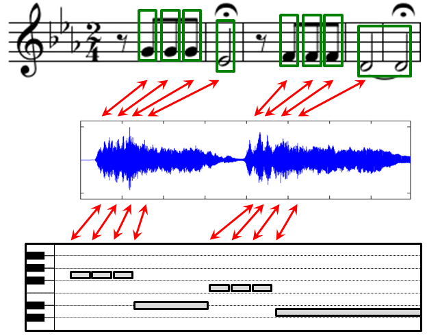 Music Alignment Example Beethoven Fifth